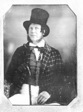 Early photo taken in Sydney, New South Wales, Australia